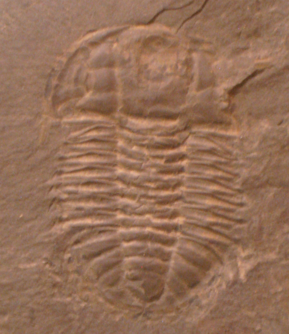 Cropped image of taxon in file name